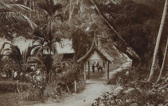 Bridge at Sungailasi